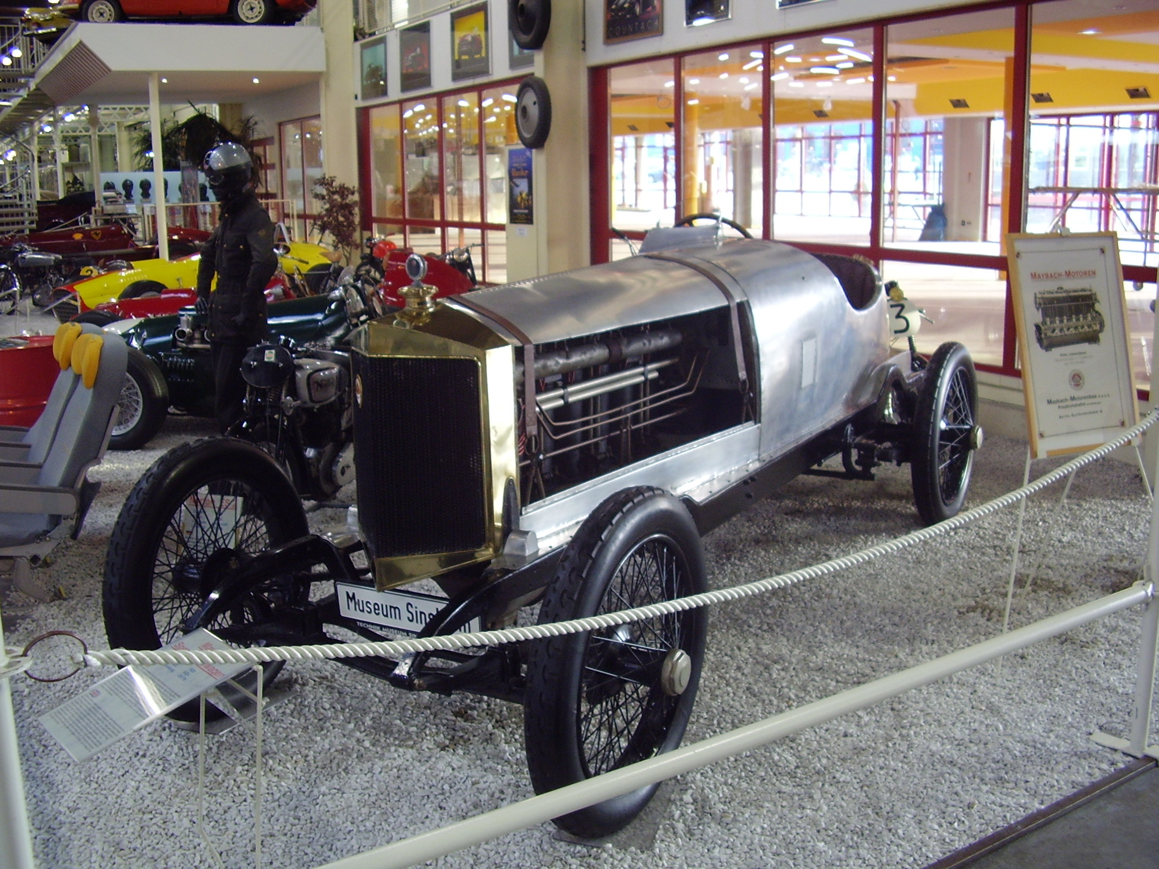 Maybach race car[1] at the Sinsheim Auto & Technik Museum (Sinsheim / Germany)